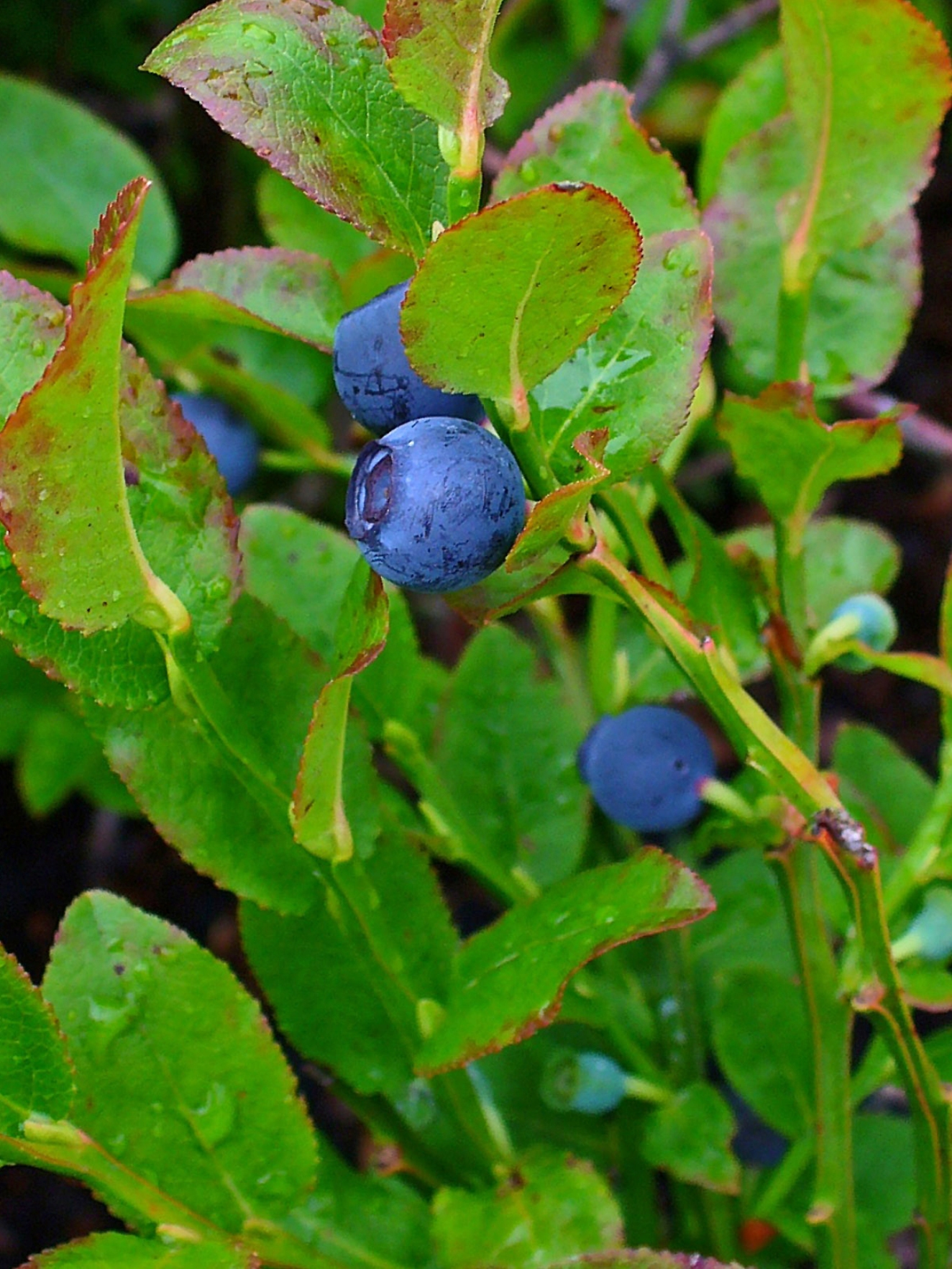 Vaccinium myrtillus, Ericaceae, Bilberry, fruit. Botanical Garden KIT, Karlsruhe, Germany.